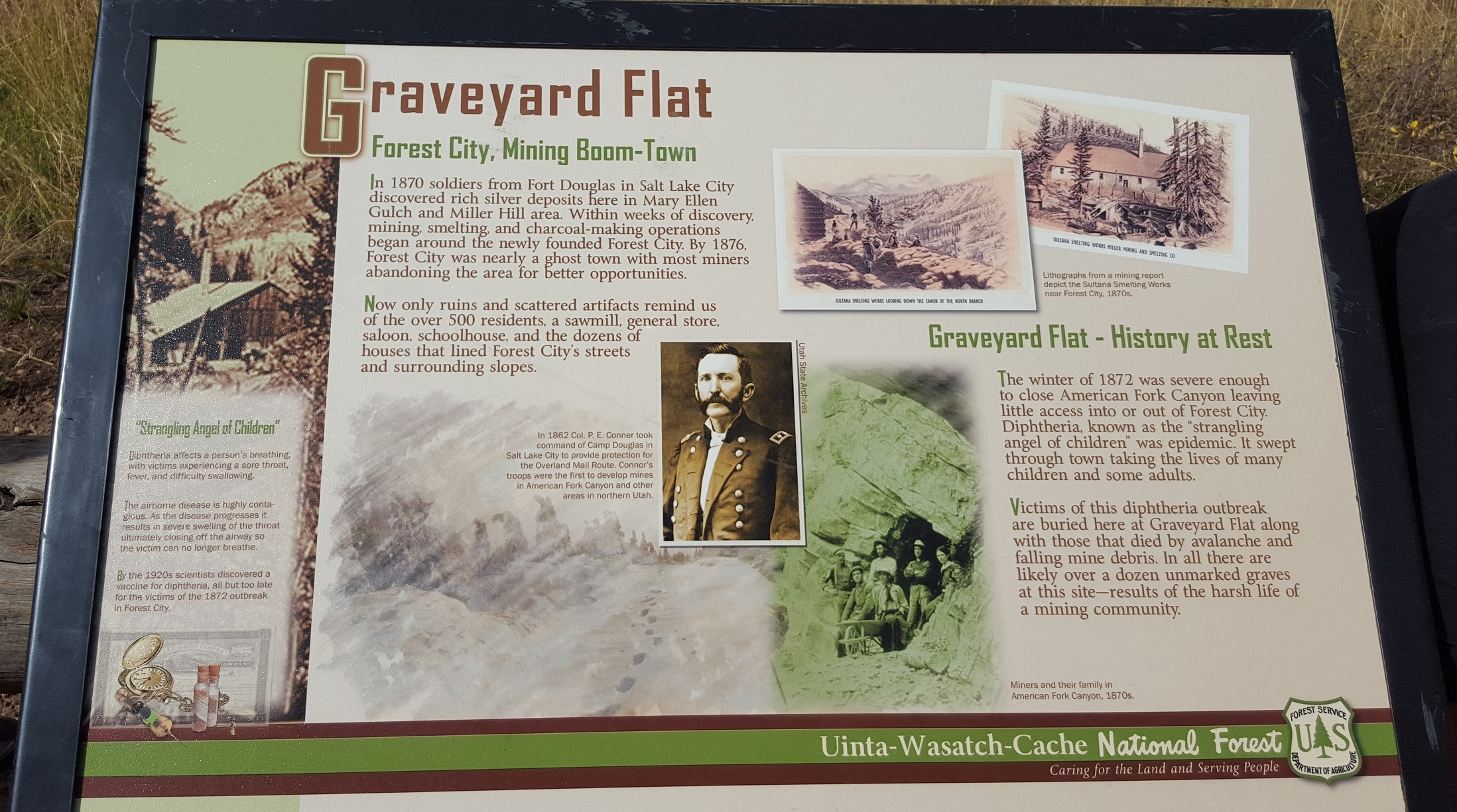 Informational Sign at Graveyard Flat